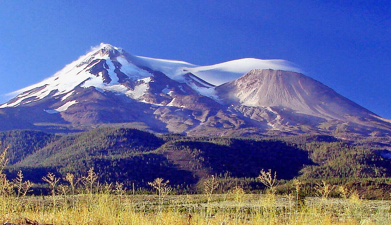 (1 in a multiple picture album) Looking from north of majestic Mt. Shasta we see something we couldn't see from the south view. There is a second volcano called Mt. Shastina. Here the winds are blowing snow from the higher peak over to the shorter.